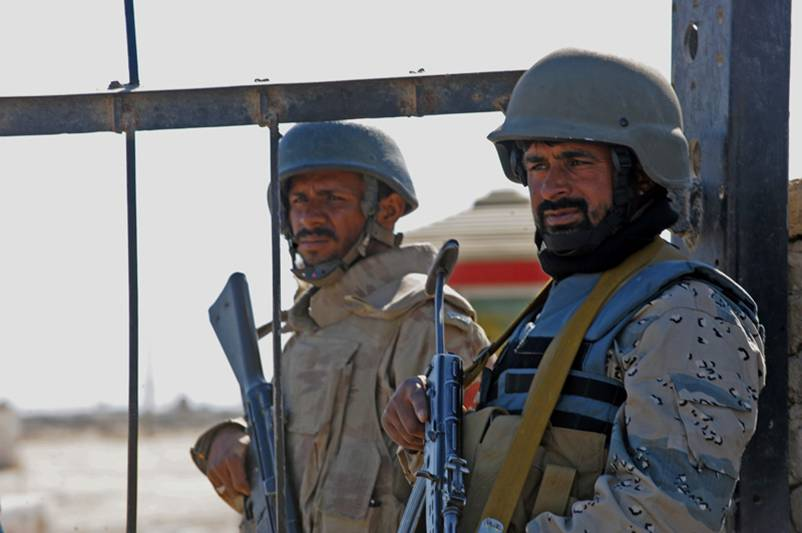 An Afghan border police officer (right) and a Pakistani soldier (left) stand side-by-side at the Friendship Gate border crossing, Spin Boldak, Afghanistan, Jan. 18, 2010. (U.S. Air Force photo by Tech. Sgt. Francisco V. Govea II/Released)